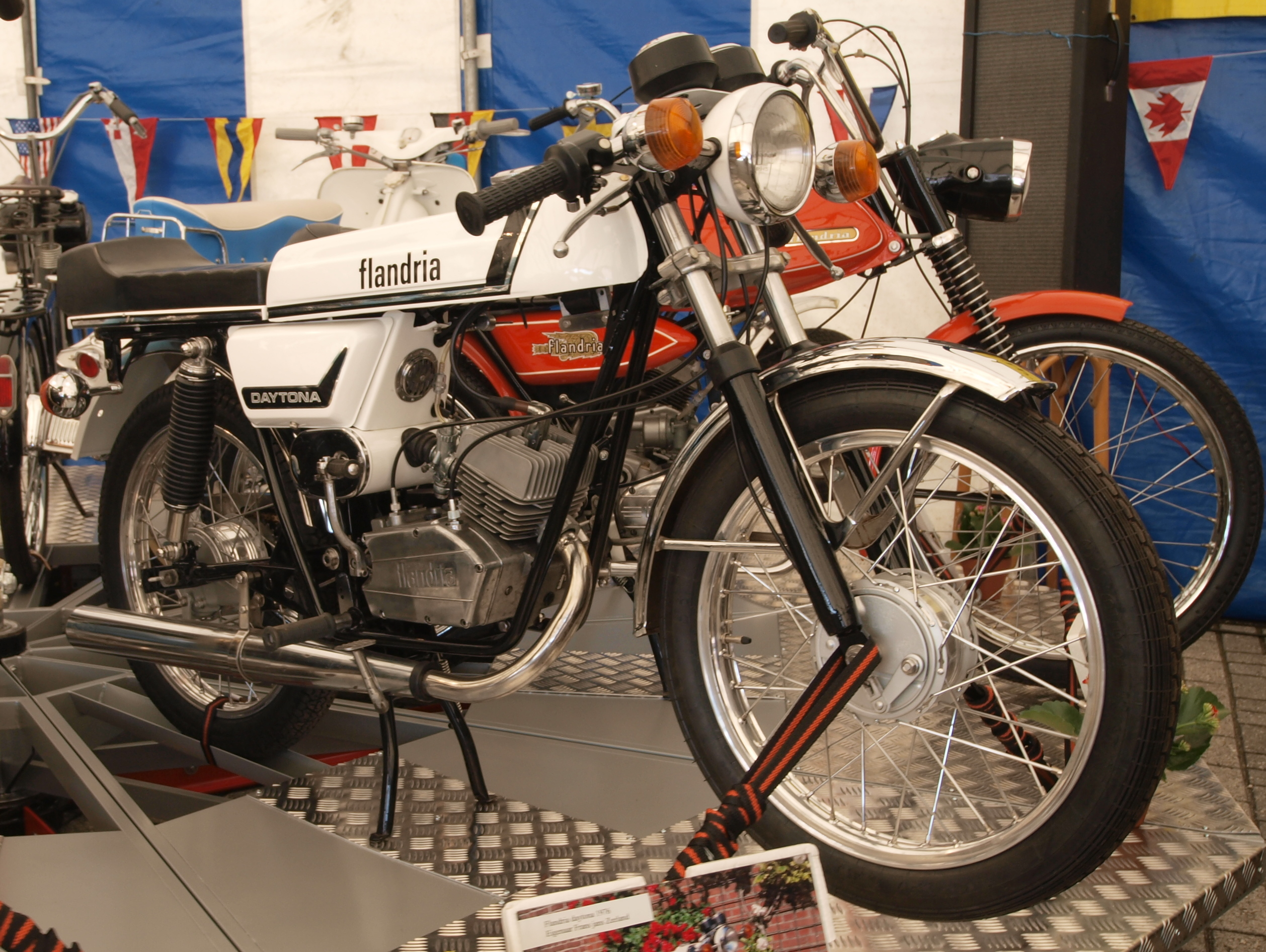 Photographed at the Classic Vehicle meeting 'Klassiek Mechaniek Zeeland 2011', The Netherlands.